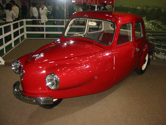 Daihatsu Bee at the 2005 Tokyo Motor Show